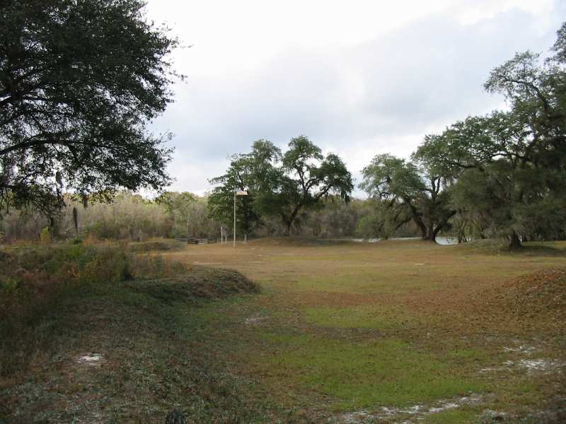 Remains of Fort Gadsden, on the Apalachicola River. Earthen mounds are all that remain of the structure. Photograph by J. Williams (Jan 5, 2004). Category:Images of Florida Category:Fort Gadsden